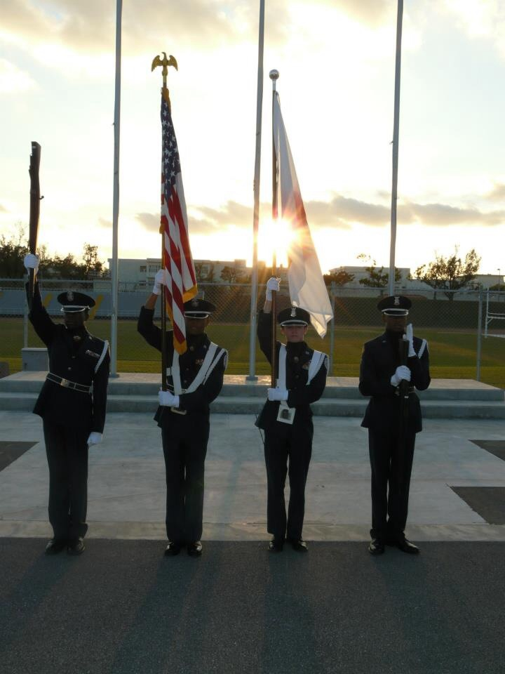 JA-932 Color Guard at "fancy" present colors.